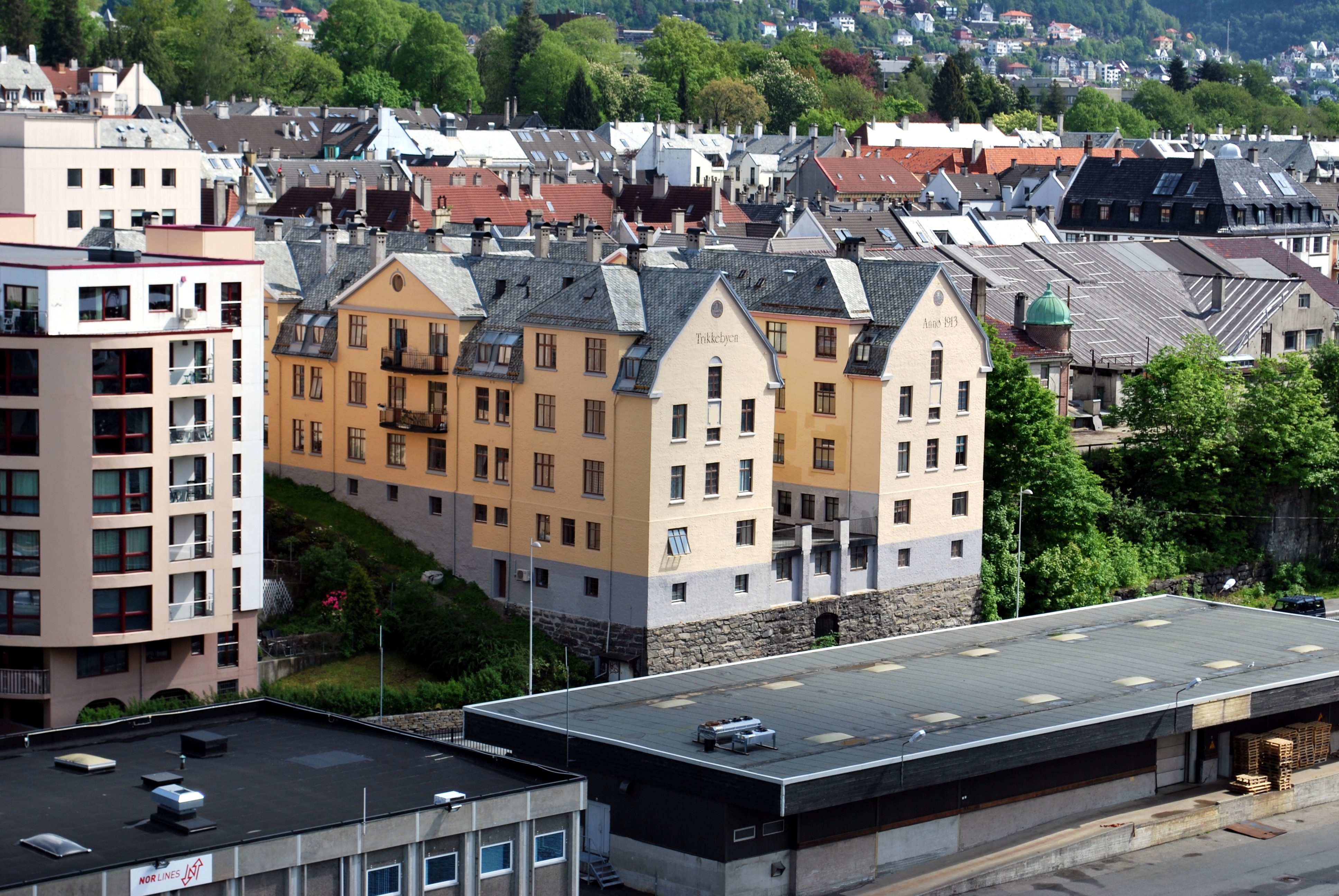 Trikkebyen, Møhlenpris in Bergen.